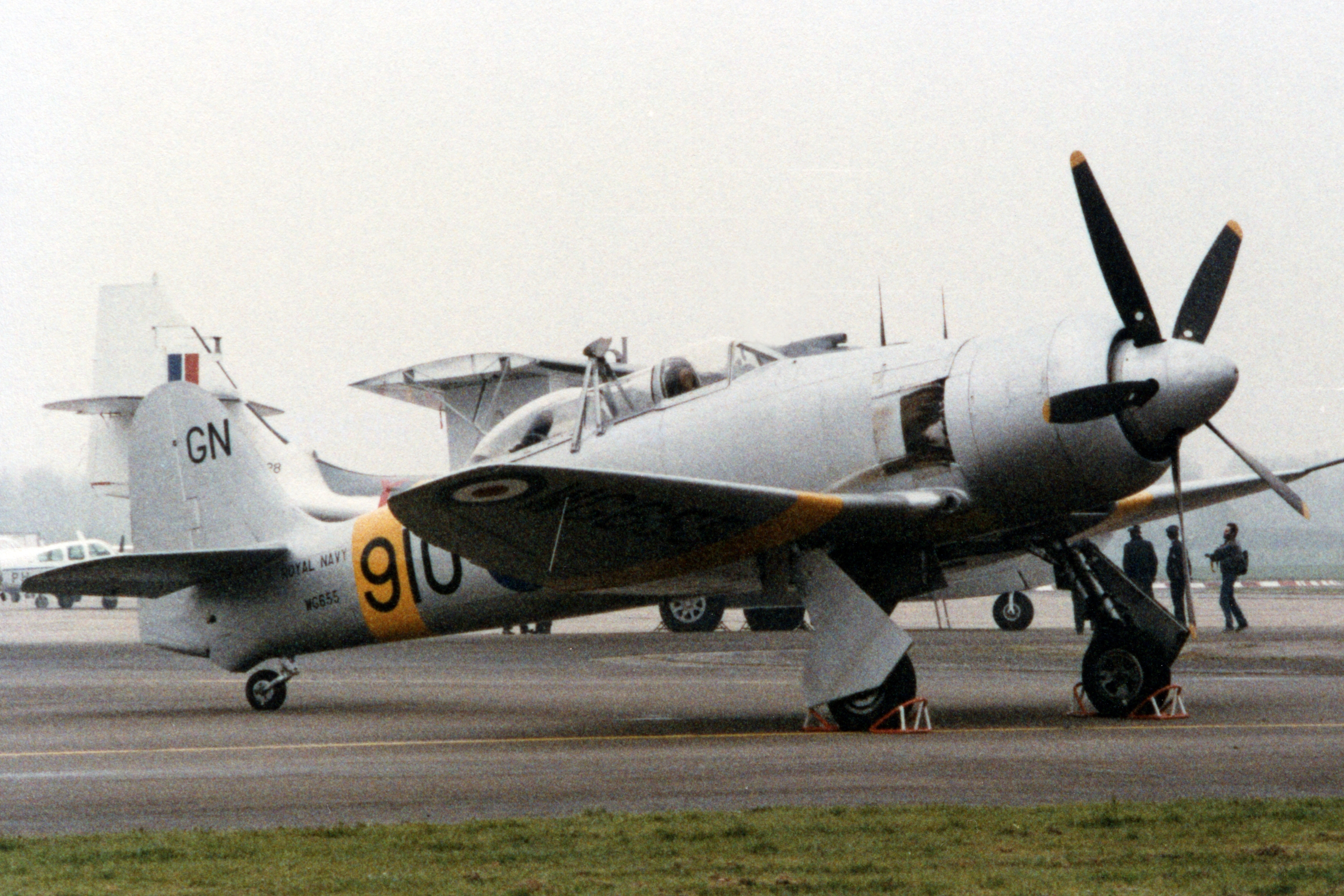 Hawker Sea Fury, Photo taken at Rotterdam Airshow, May 1985. This plane crashed on 1990-07-14.